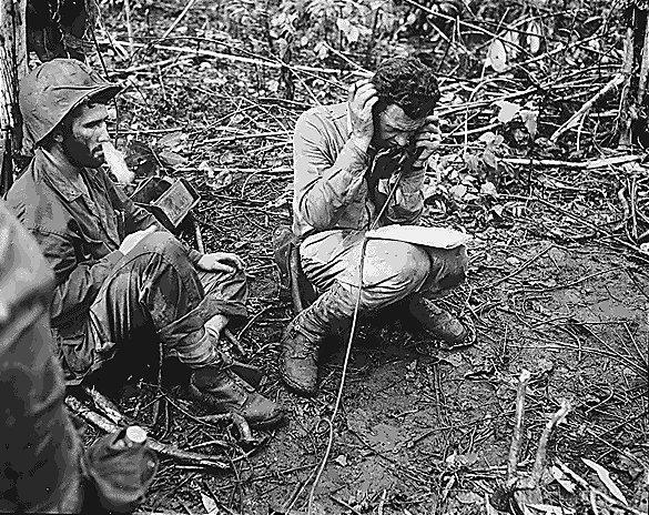 Ltieutenant Colonel John Weber, commanding officer of a Marine battalion on Cape Gloucester, sitting on his helmet, receives a report from one of his company commanders. Private first class. Vincent Miley, looking on, blows cigarette smoke out of his nose.